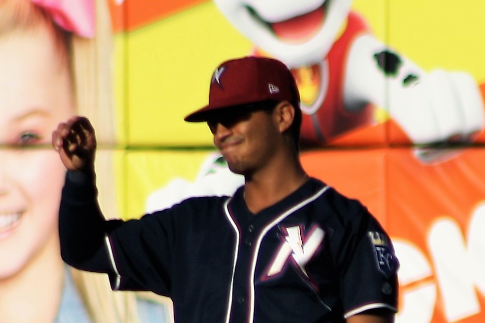 Escalera plays baseball for the Northwest Arkansas Naturals in Springdale, Ark